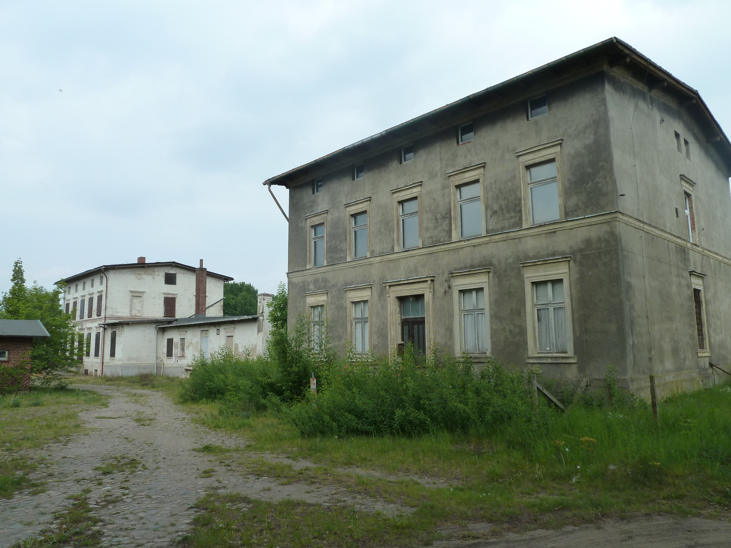 Abandoned railway station Klein Warnow, station building and living house, line Berlin-Hamburg